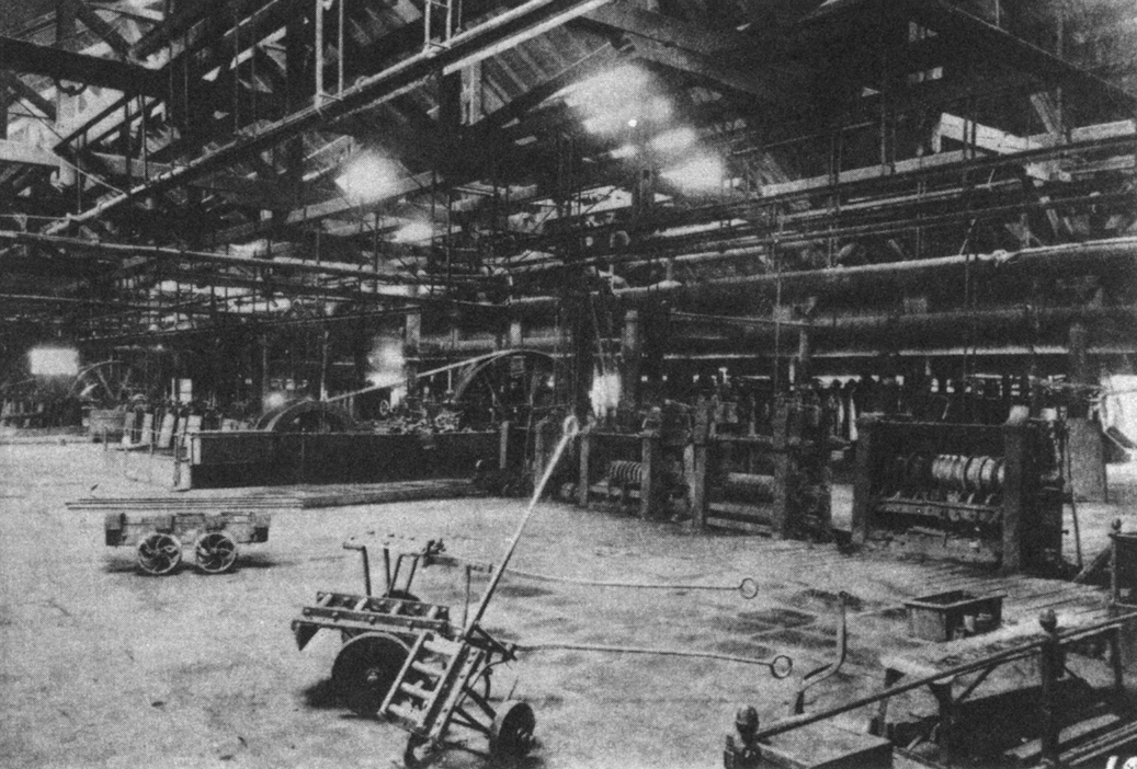 Rolling mill in the Ózd Metallurgical Works, 1883